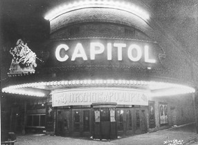 Arguably Regina 's best-known and most-beloved theatre, the Capitol Theatre opened in 1921. The Capitol Theatre was turned into a multi-screen facility in 1975. In 1992 the theatre was demolished.